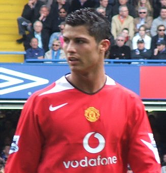 Cristiano Ronaldo; image cropped from Image:Ronaldo - Manchester United vs Chelsea.jpg, sharpened and converted to PNG format.